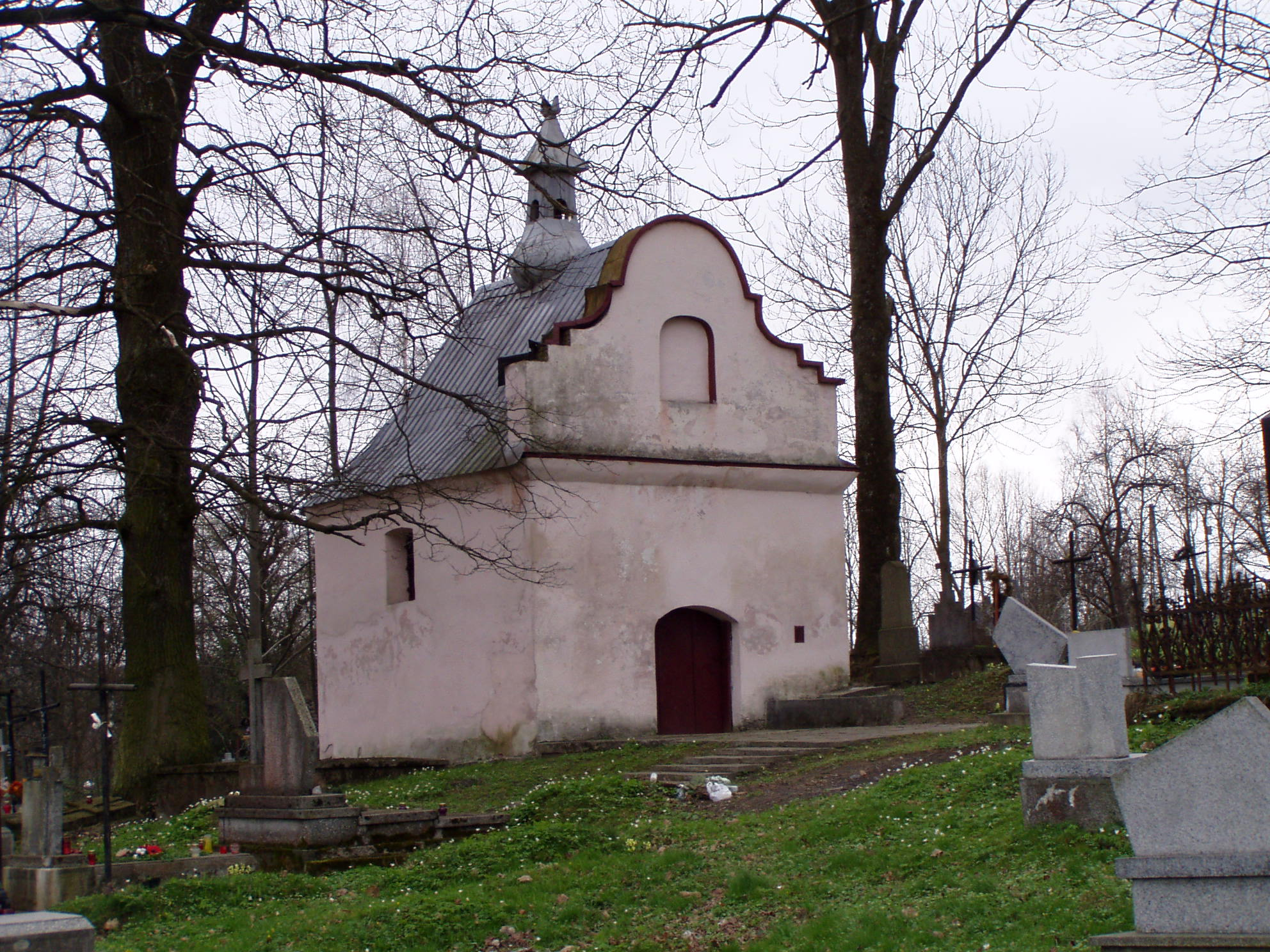 Bircza, Mausoleum of the Kowalski family at the Old Cemetery.